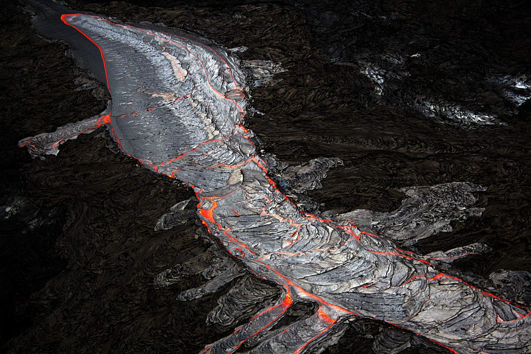 Pāhoehoe Lava flows in the open lava channel (not in a Lava tube) with overflows at both sides. The image was taken at The Big Island of Hawaii. The lava flow is due to July 21, 2007 fissure eruption at Kīlauea volcano.The channel is crusting over with a v-shaped opening pointing upstream. The crusting-over process usually starts at the upstream end, the crust grows downstream for a considerable distance, then the crust founders and sinks opening the channel to crusting over again. The main channel and overflows show perched nature of this kind of lava channels. The picture was taken from a helicopter. The link to the map of the flow by USGS.